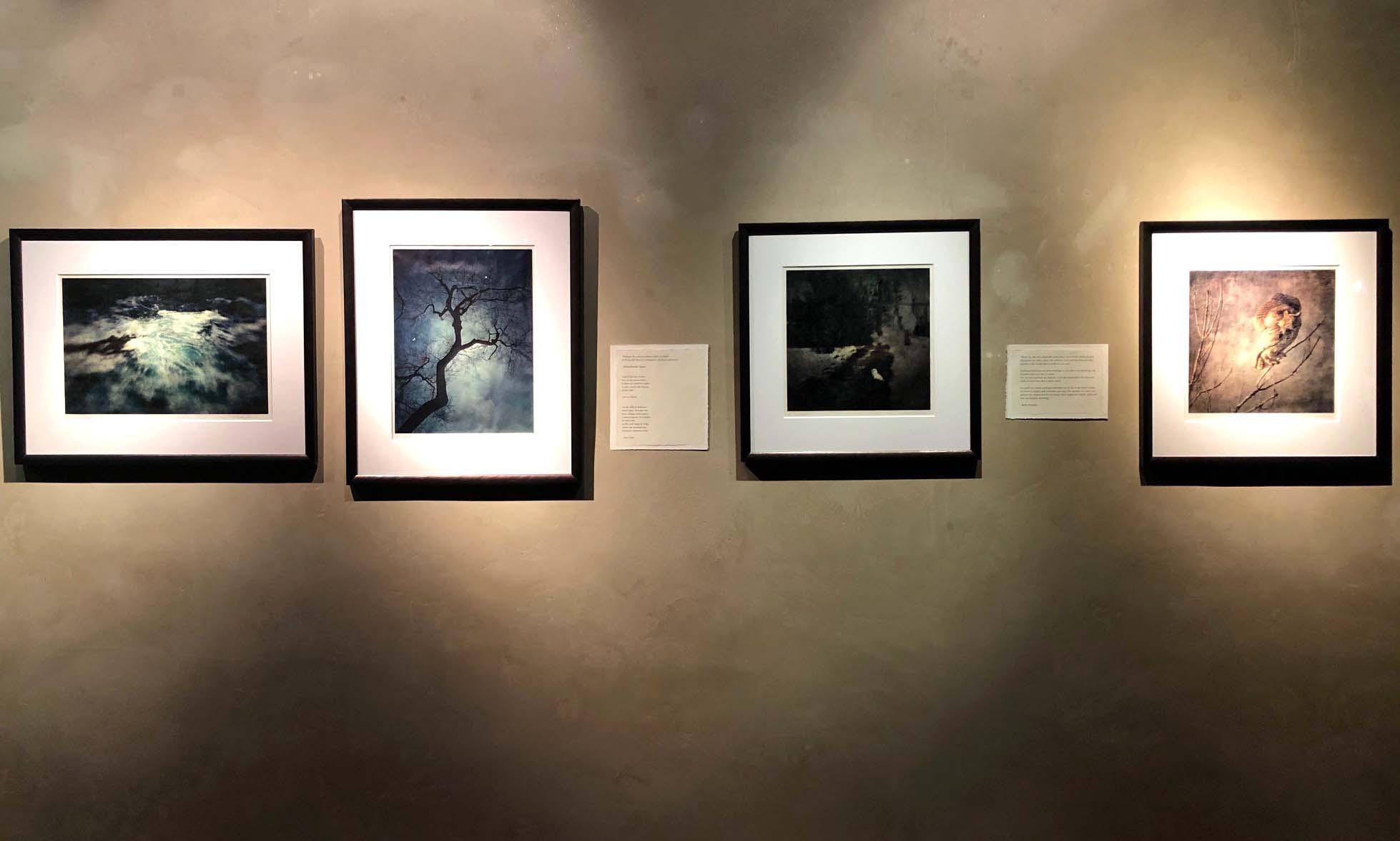 Installation view of "Evenings with the Moon," The Gallery at Mr. Pool, Boulder, CO, 2019